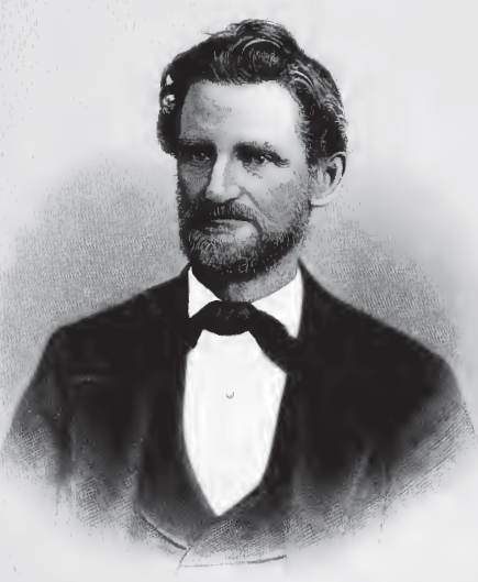 Ohio politician Ferdinand Schumacher